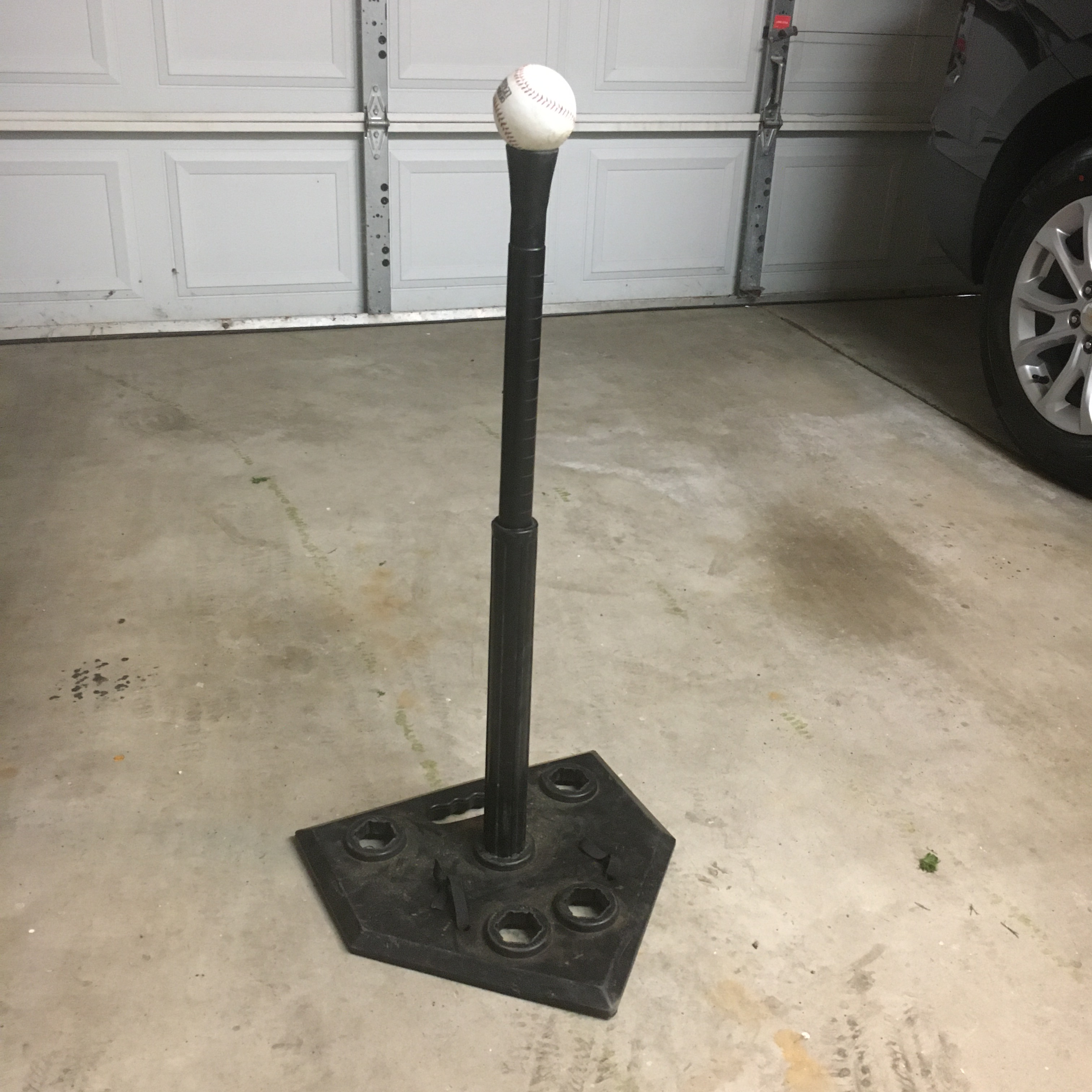 A hitting teen for baseball